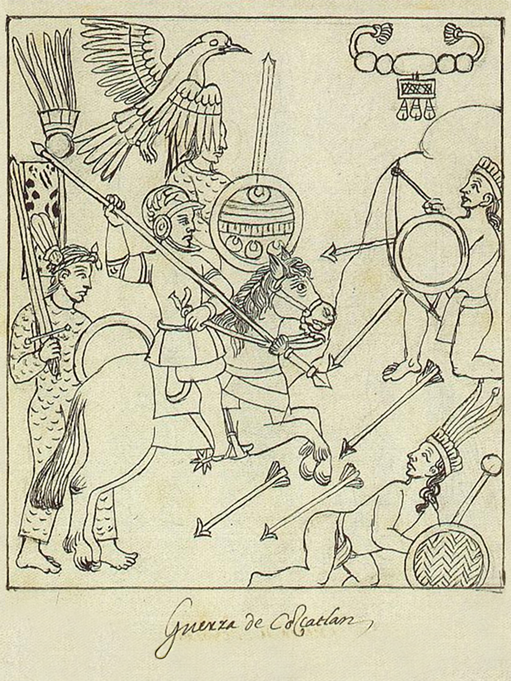 This is a representation of the battle of Cuzcatlán (Kuskatan). In the left, a group of indigenous Tlaxcaltec soldiers. These are led by Pedro de Alvarado, who is depicted in the center. In the right, a group of indigenous Pipil soldiers are depicted in a deliberately barbaric fashion. Above each group, their respective coat of arms is depicted. Below the box, the scene is described: "Guerra de Cozcatlan"